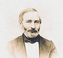 Mustafa Naili Pasha (1798–1871)